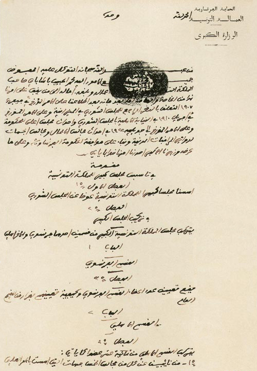 _Great_Council_-_Tunisia. Document of creation